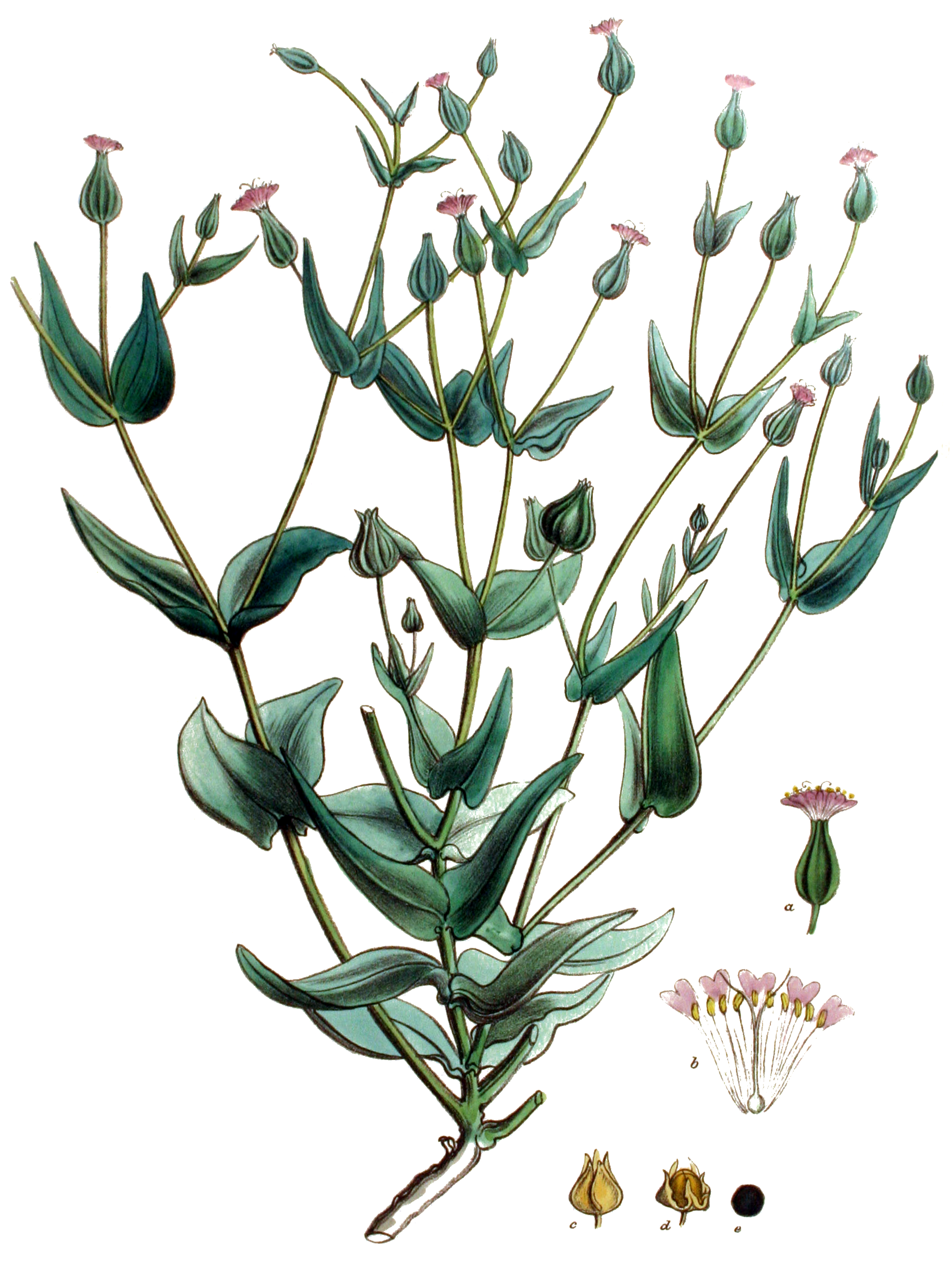 Vaccaria hispanica (Mill.) Rauschert (1966) - Cow soapwort [syns. Saponaria vaccaria L. (1753), Saponaria hispanica Mill. (1768), etc.]